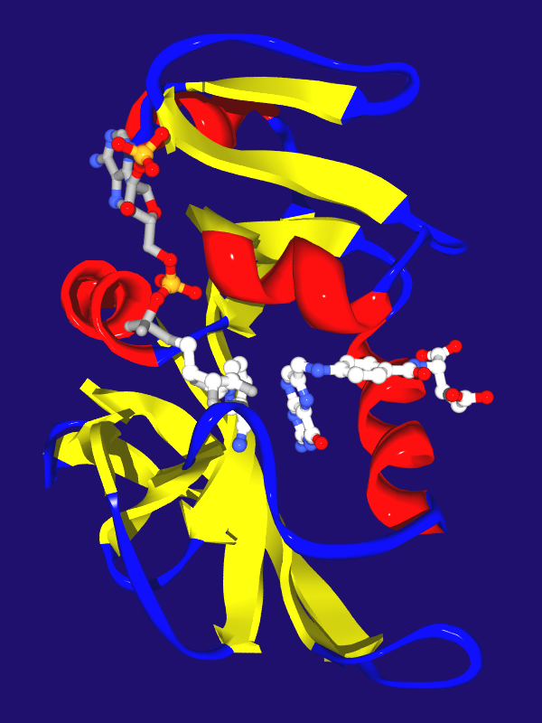 E. coli dihydrofolate reductase (DHFR) with bound substrates.